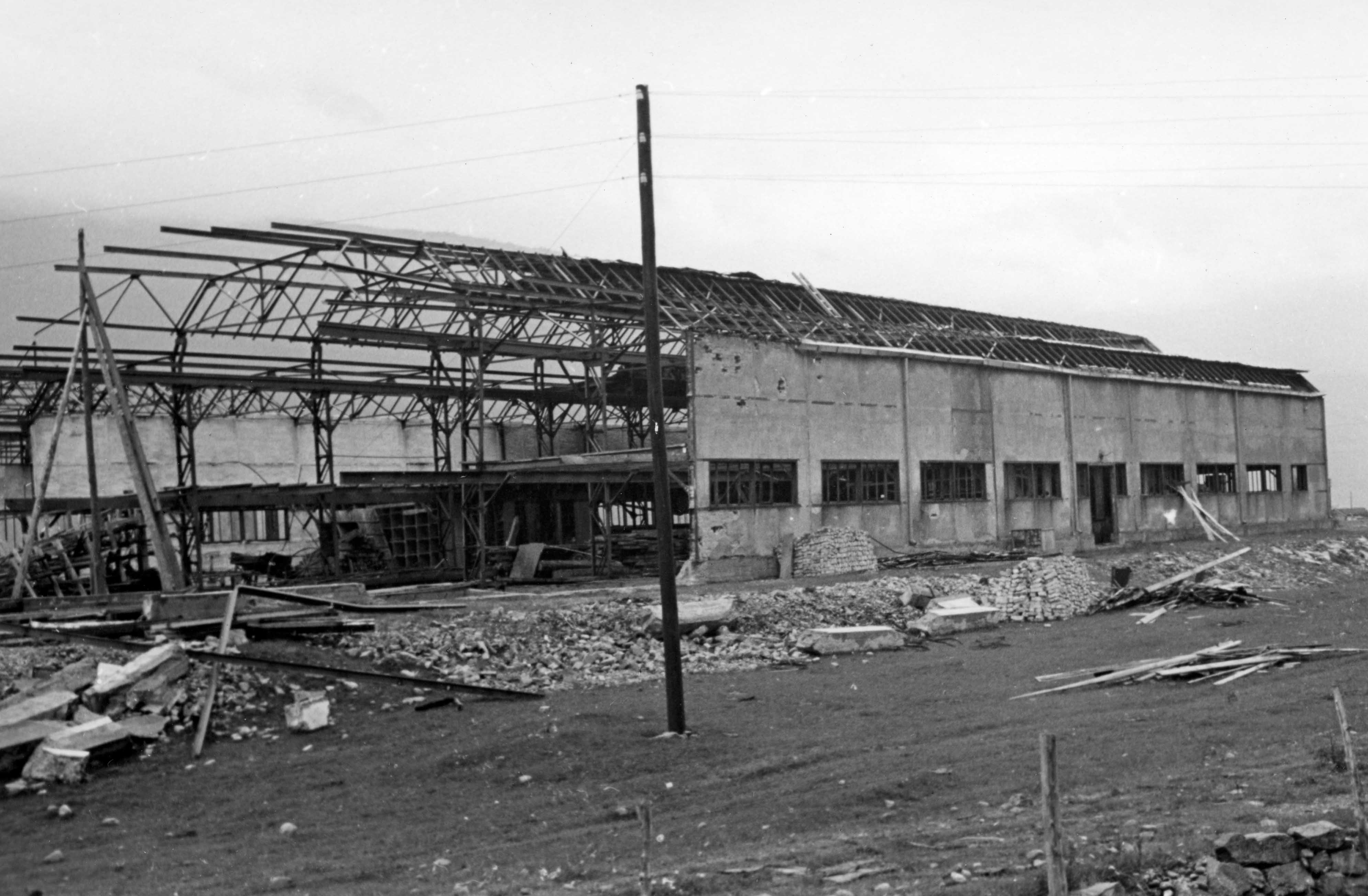 The bombing of Sunndalsøra The German invasion resulted in 24 towns and villages being bombed in the spring of 1940. This included Molde, Kristiansund, Steinkjer and Namsos. The National Archives of Norway has received 64 photographs (paper positives 9 x 12 cm) that according to information on the envelope are taken in July 1940 in Kristiansund, Steinkjer and Levanger. The photos have belonged to engineer Hallvard Løken (1908-1995). He was a good amateur photographer and might very well have taken the photos himself. Thanks to help from others, we have been able to pinpoint many of the locations, but not all of them, and the National Archives of Norway is very happy to receive further information.